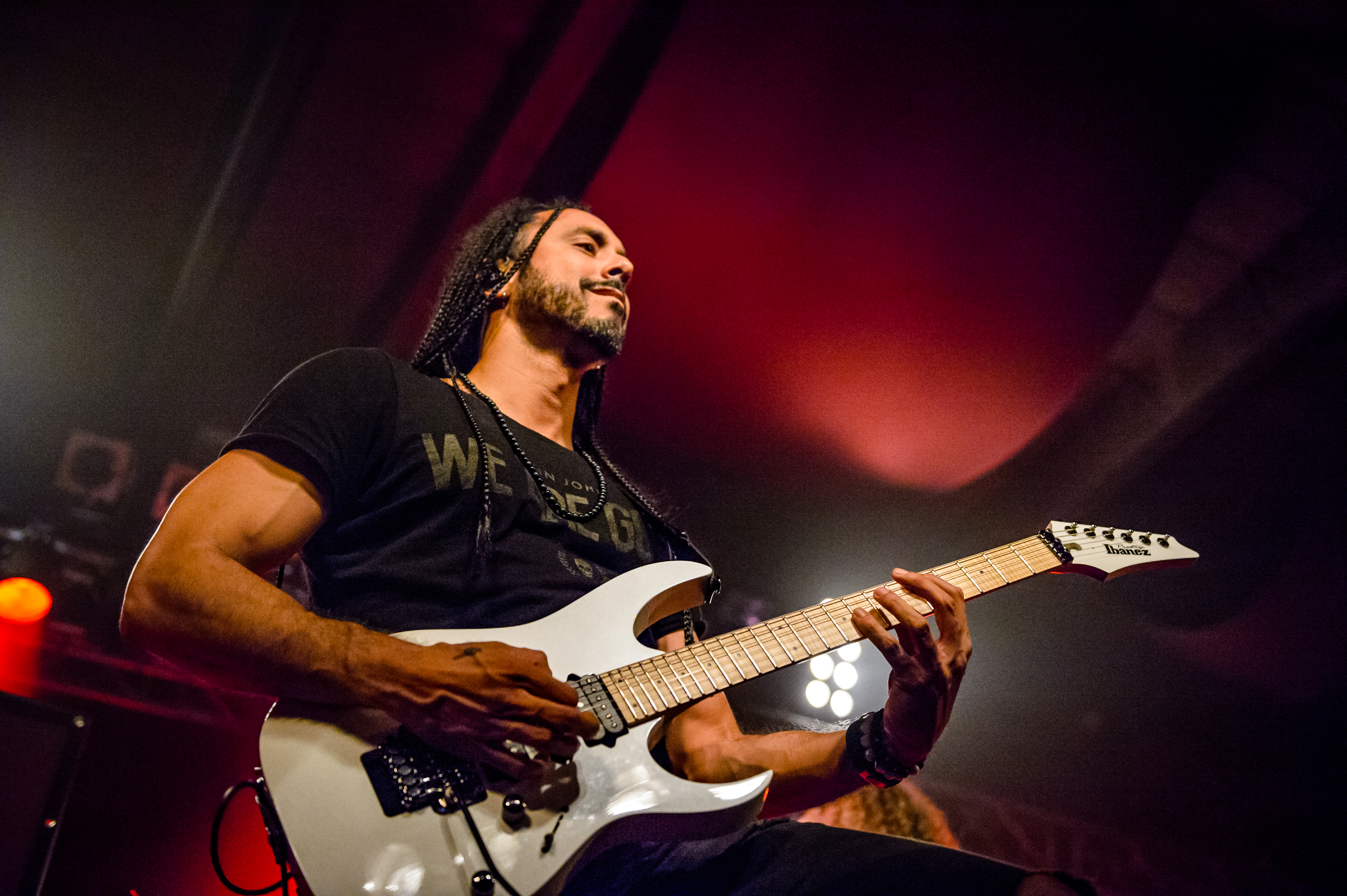 Angra supporting Tarja Turunen - The Shadow Shows Tour; Live Music Hall Köln 2016